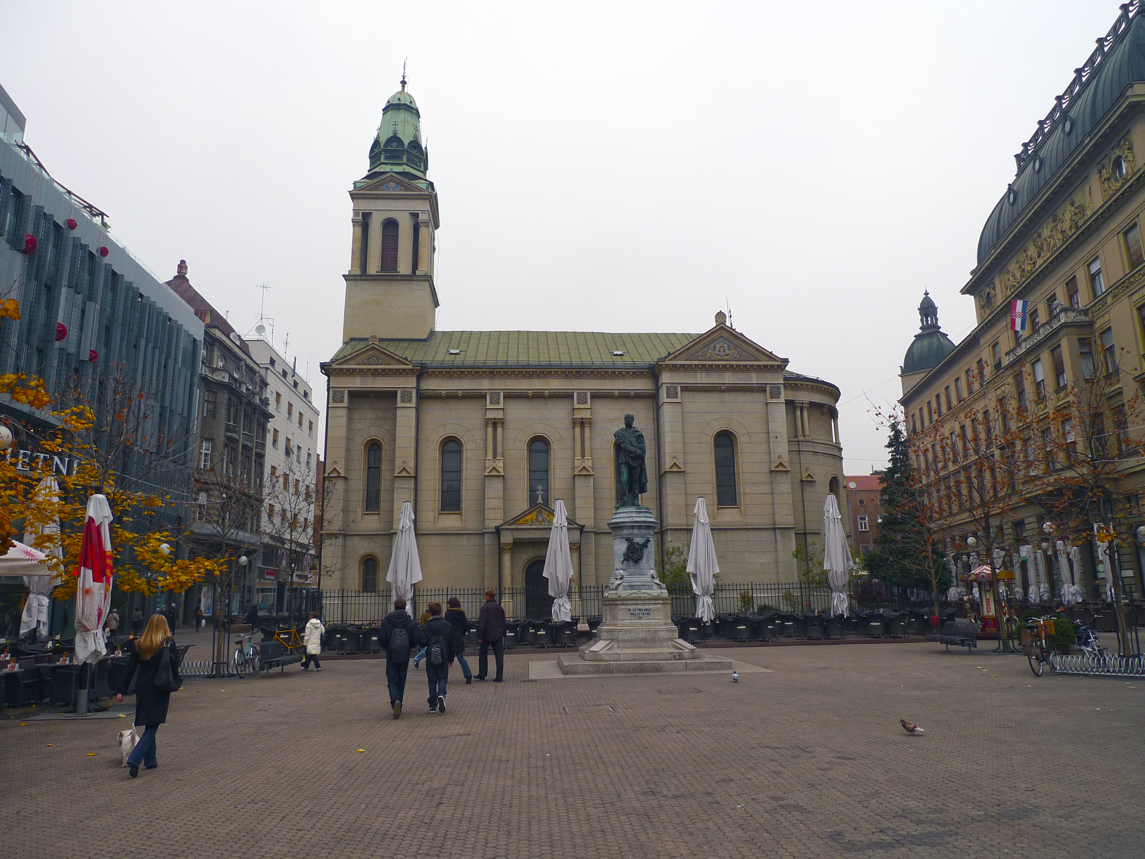 Zagreb Orthodox Cathedral or Cathedral of the Transfiguration of the Lord.